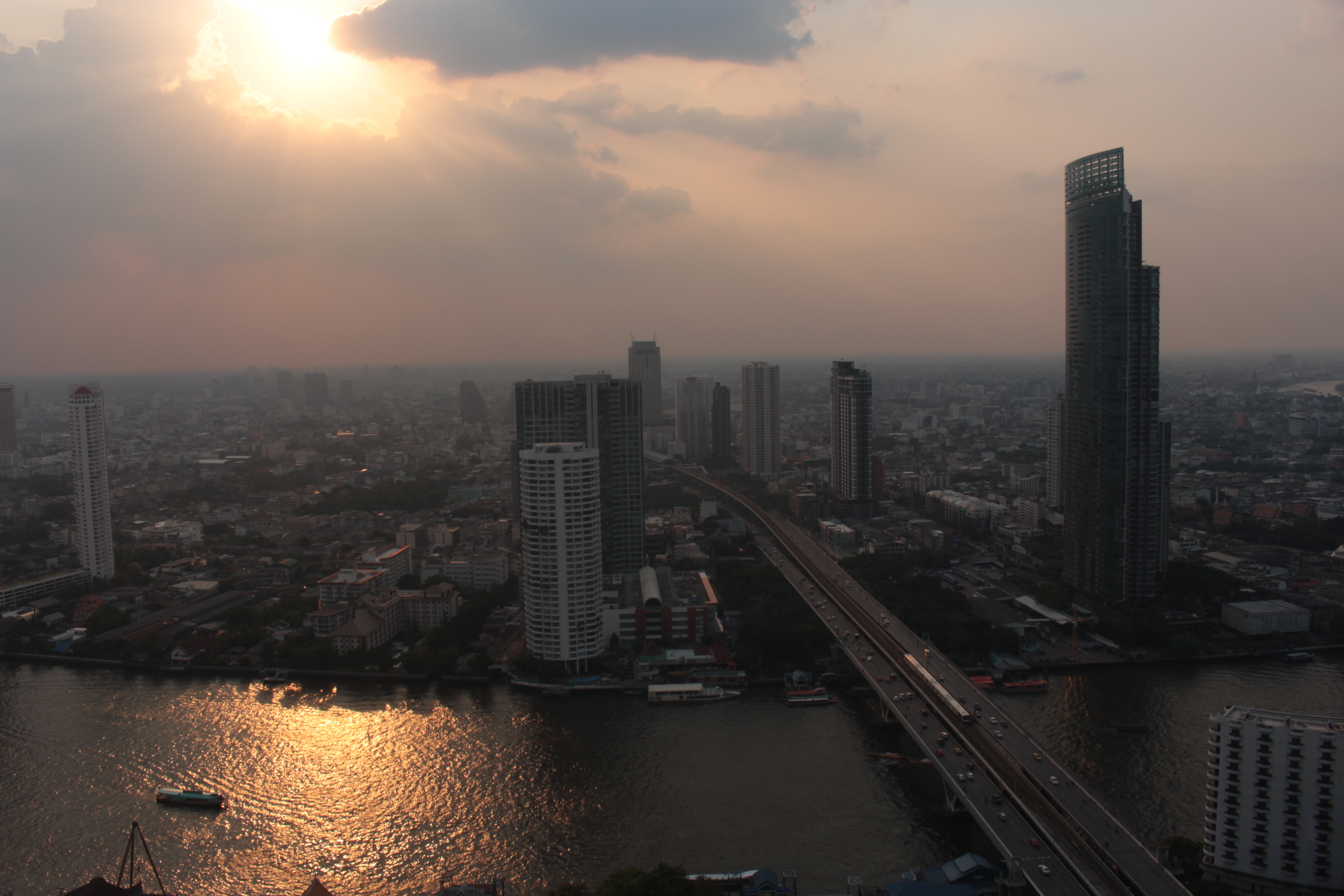 View from the Sathorn Unique Tower/Ghost Tower, Bangkong, Thailand.